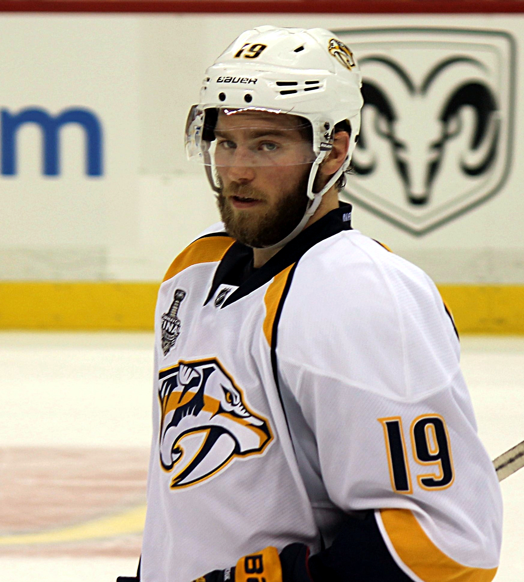 Nashville Predators forward Calle Jarnkrok during game 5 of the Stanley Cup Final against the Pittsburgh Penguins, June 8, 2017, at PPG Paints Arena in Pittsburgh, PA.